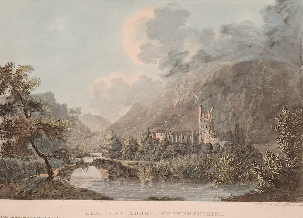 A view of the ruins of Llanthony Abbey, with an old bridge over the Afon Honddu in the foreground.